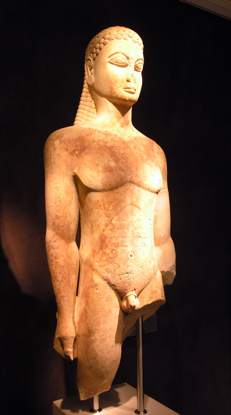 So-called "Sacred Gate kouros". Marble, ca. 600-590 BC. Found in 2002 by the German Archaeological Institute in Athens. Kerameikos Archaeological Museum in Athens.